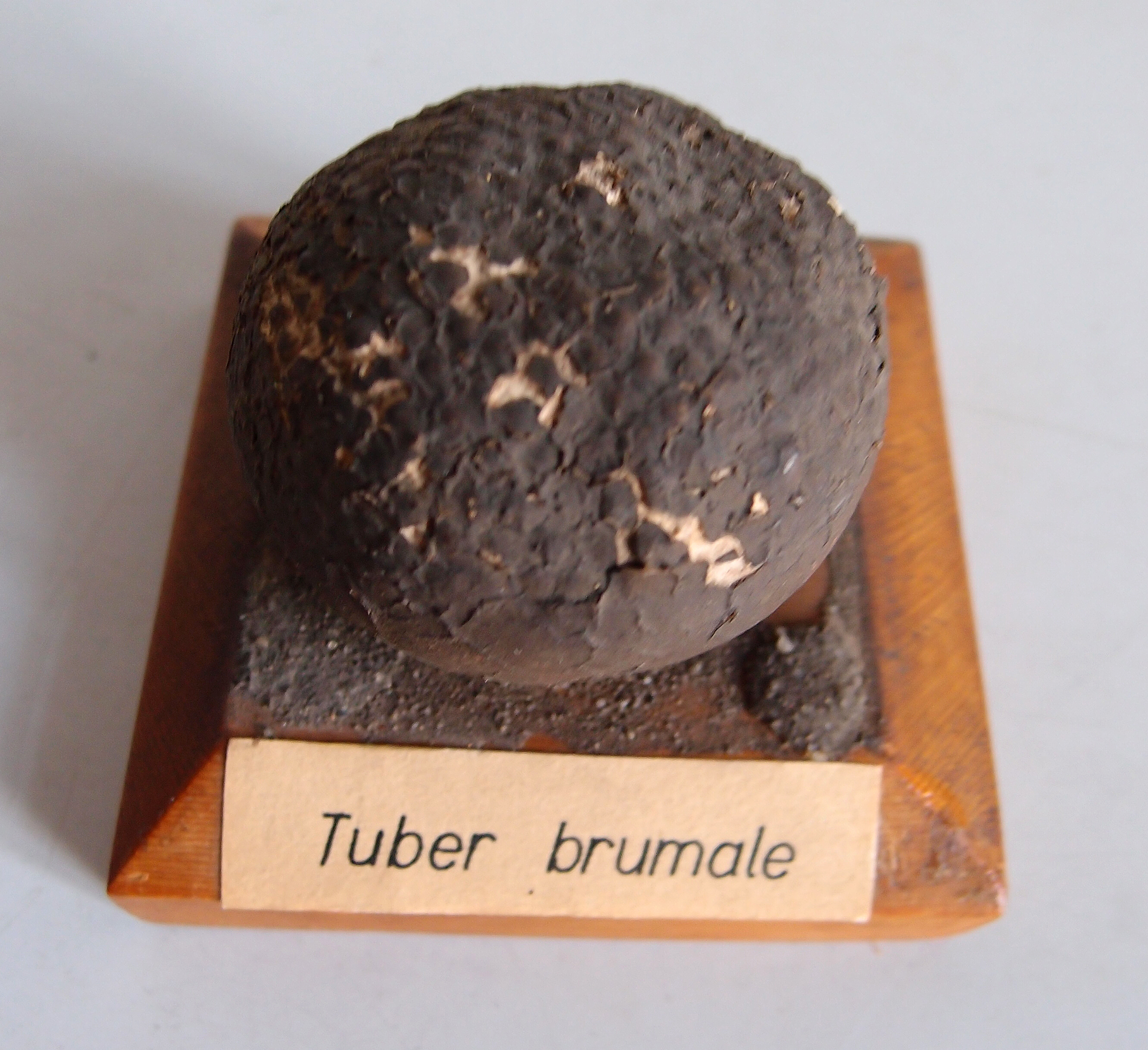 Model from the collection of the Botanical Museum in Greifswald, Germany. . see also for more information on the models